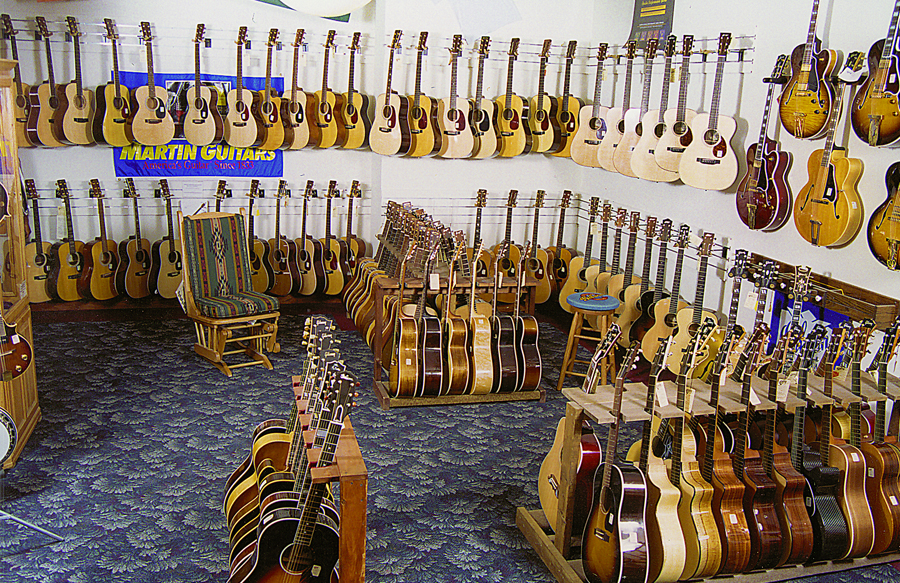 The showroom of Elderly Instruments in Lansing, Michigan